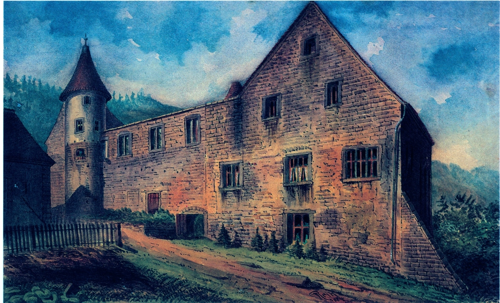 siehe oben